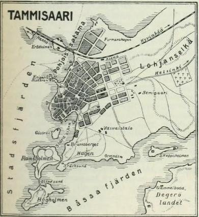 Map of Tammisaari (Ekenäs), Finland in early 20th century